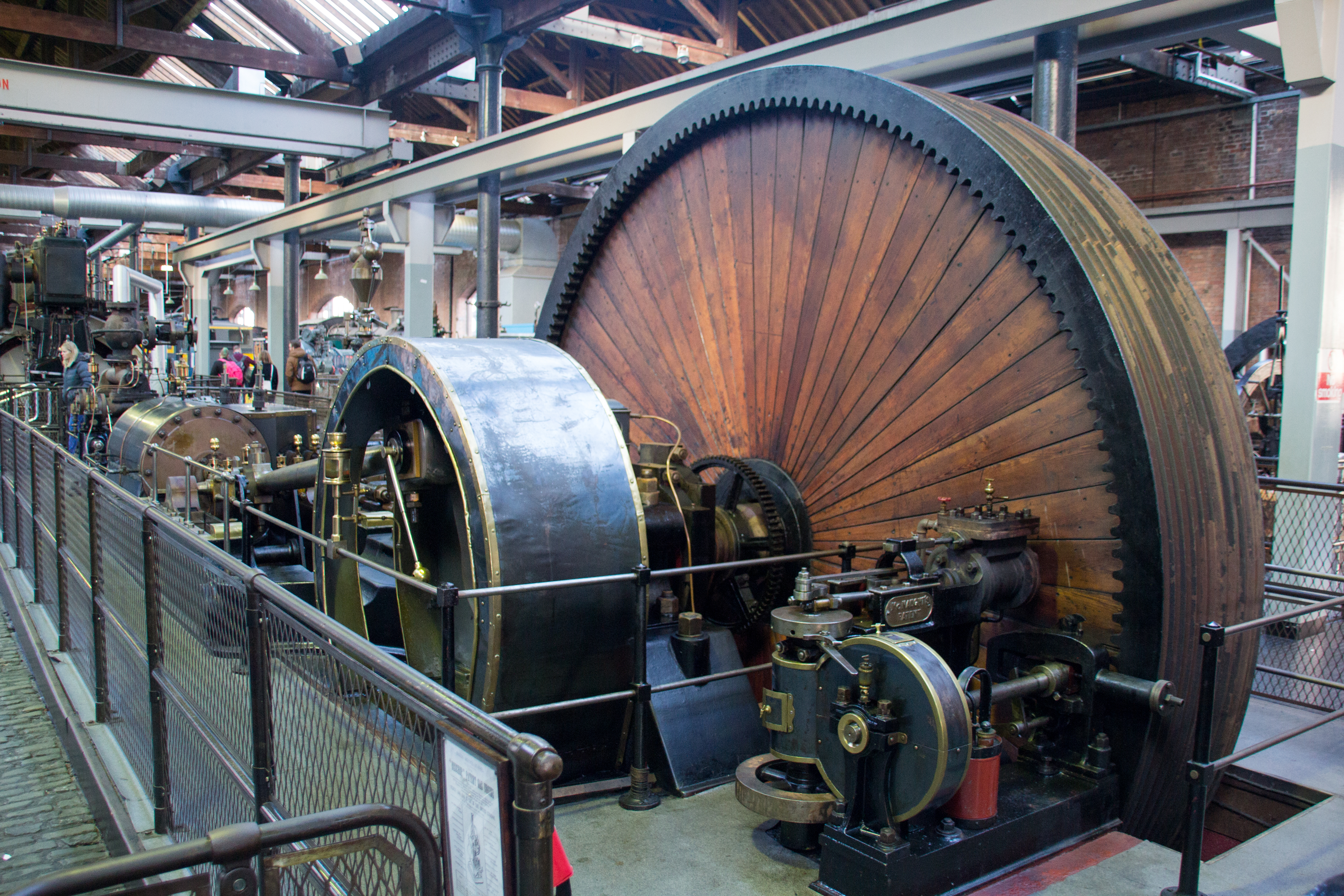 Museum of Science and Industry, Manchester, UK Firgrove engine. Made by McNaught of Rochdale 1907.